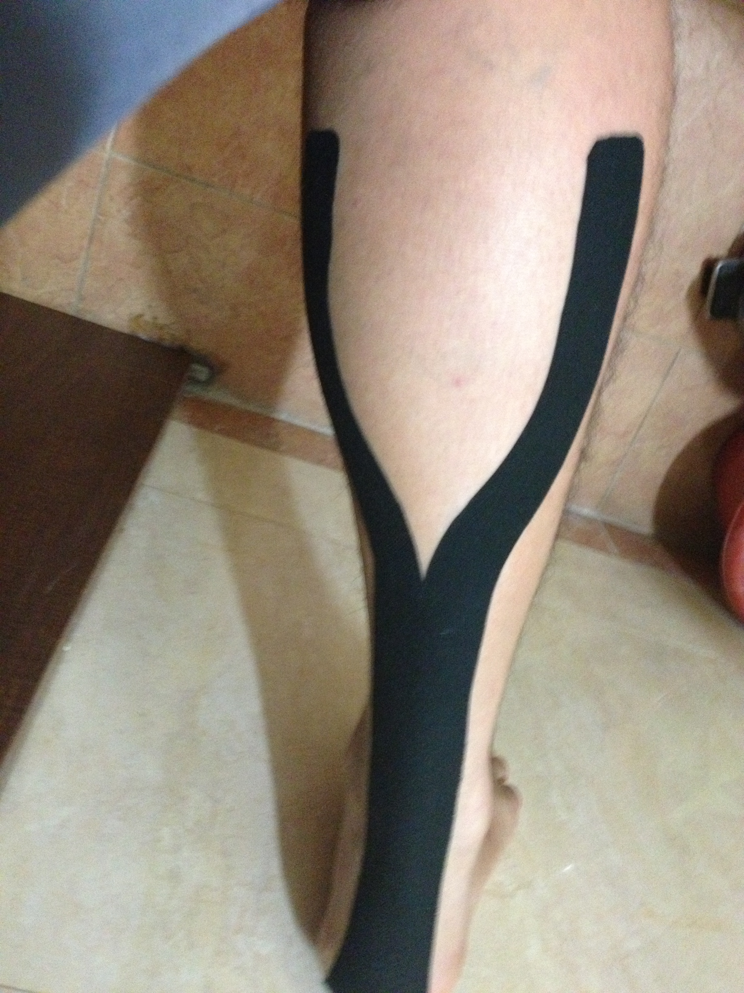 Kinesio Taping for strained Soleus and Achilles tendon